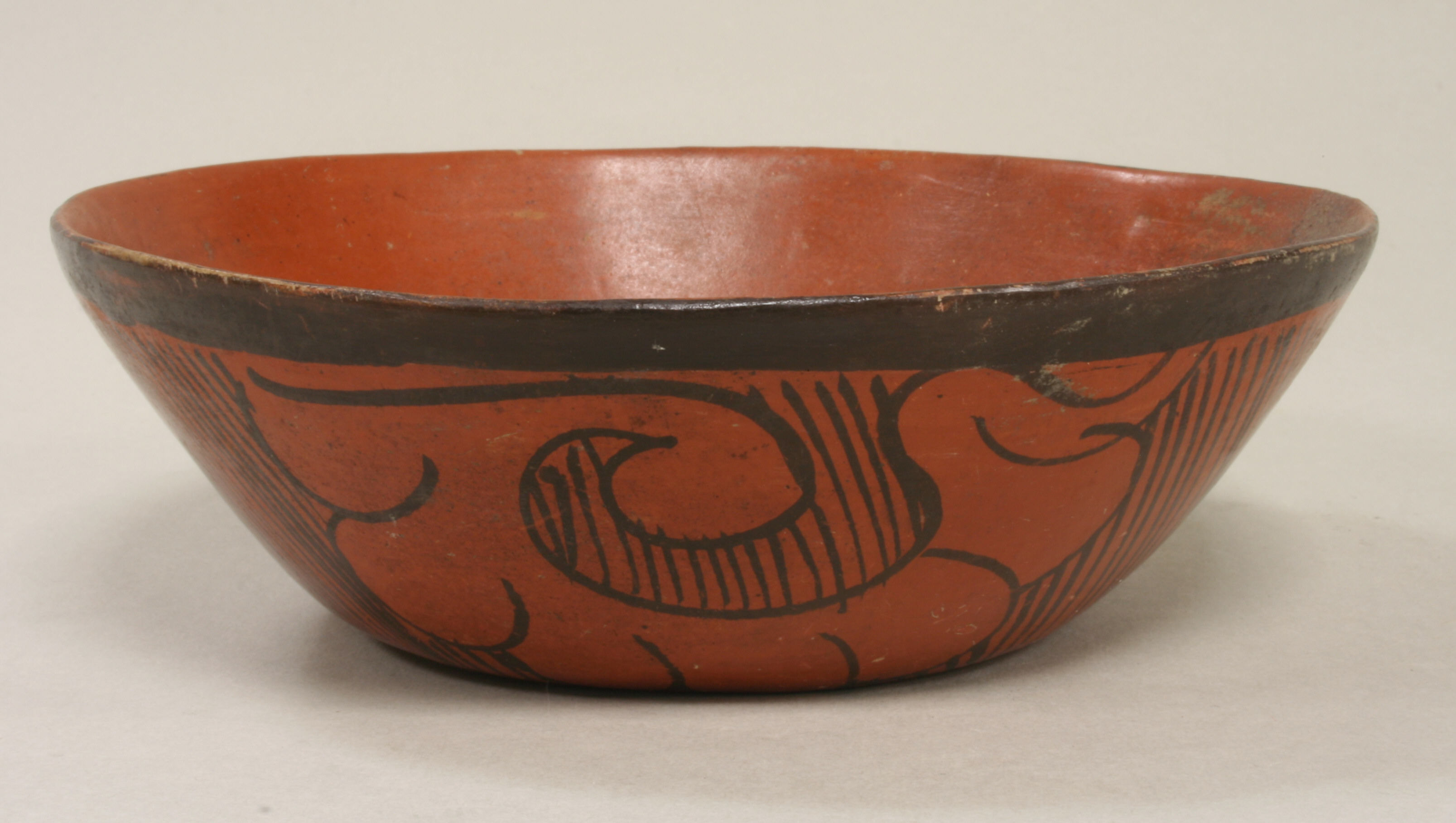 Aztec; Bowl; Ceramics-Containers